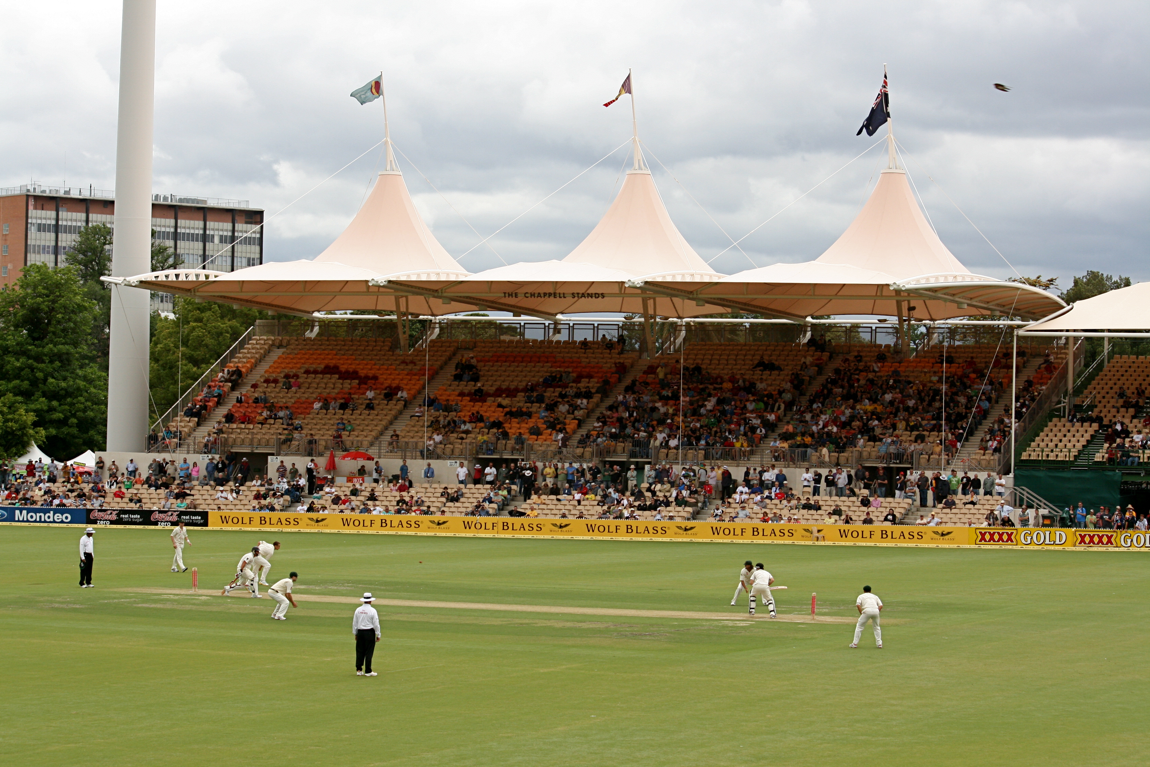 The Chappell Stand - one of the newer stands on the oval's eastern side. Strangely, this ultra modern new structure seems to fit in quite well with the more traditional older stands. You get an excellent view from these seats but tend to be in the firing line when sixes are hit square of the wicket. Adelaide Oval, 2nd Test Australia vs New Zealand, South Australia.